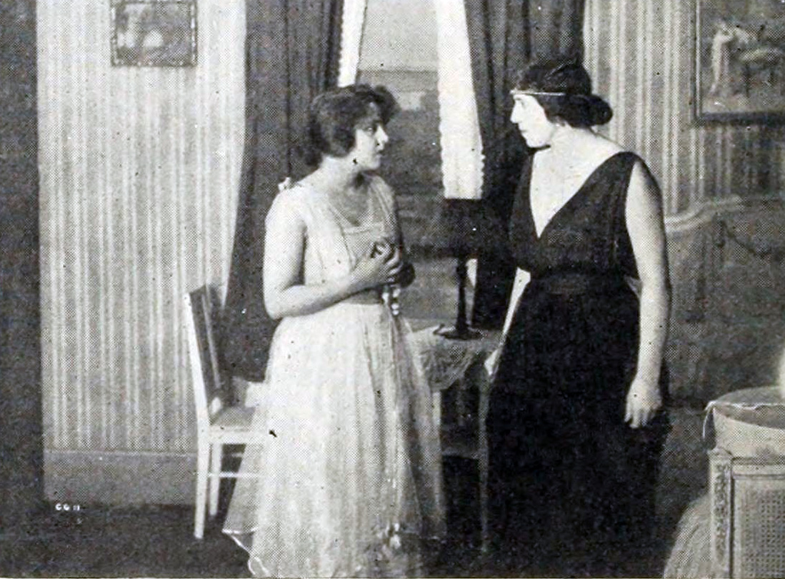 Illustration of a review in The Moving Picture World for the film The Decoy (1916) (note: there are two American films of that name made in 1916).